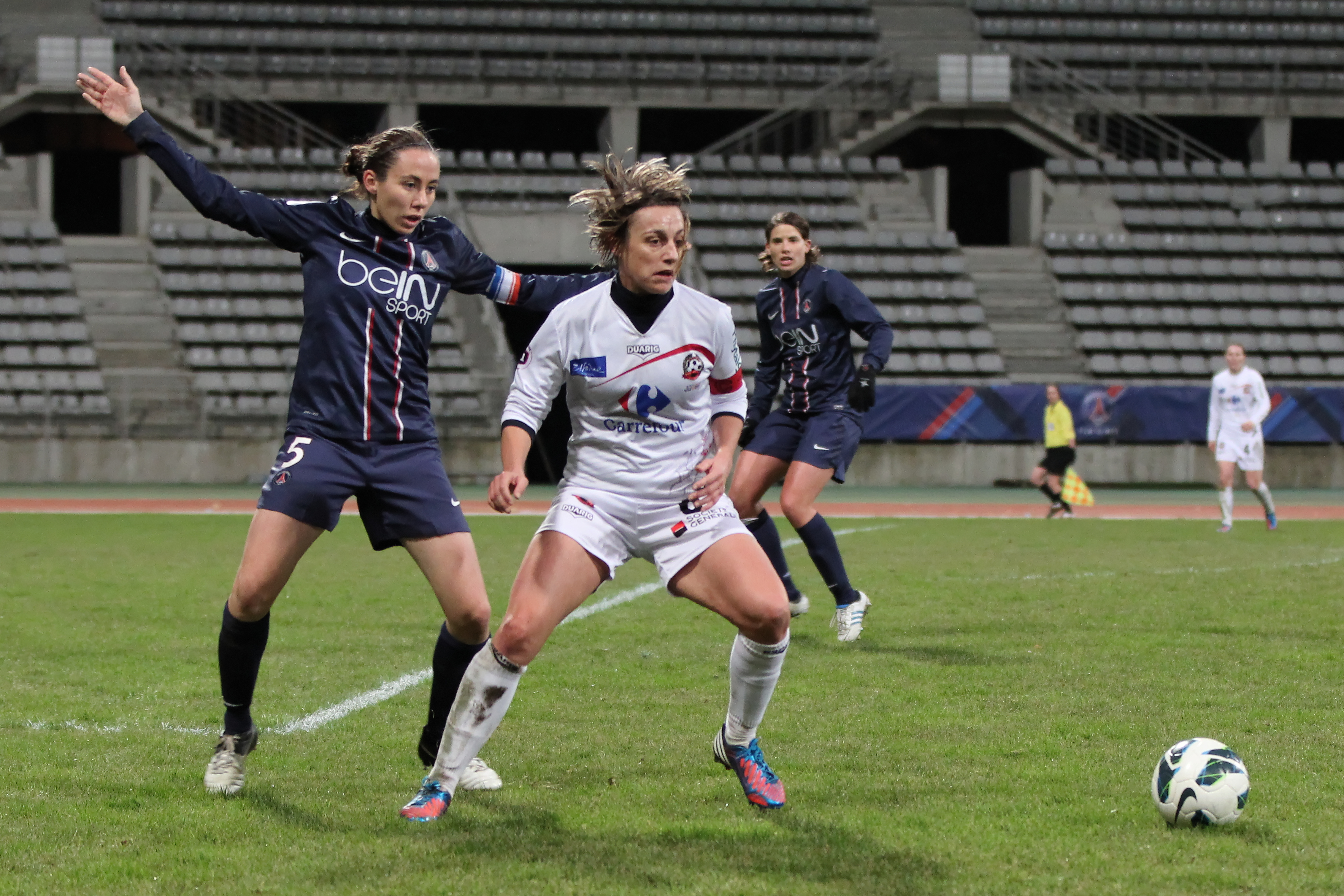 PSG-Juvisy, december 9th, 2012. Player of PSG.